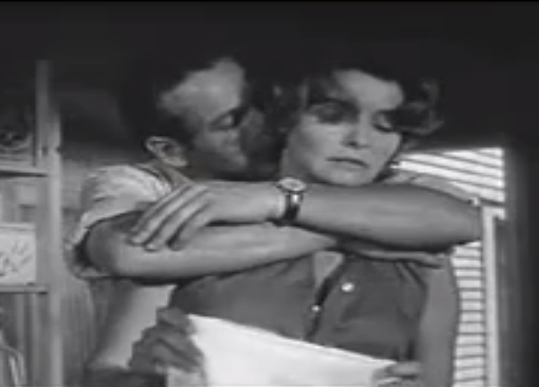 Hud (Paul Newman) intends to court Alma (Patricia Neal)